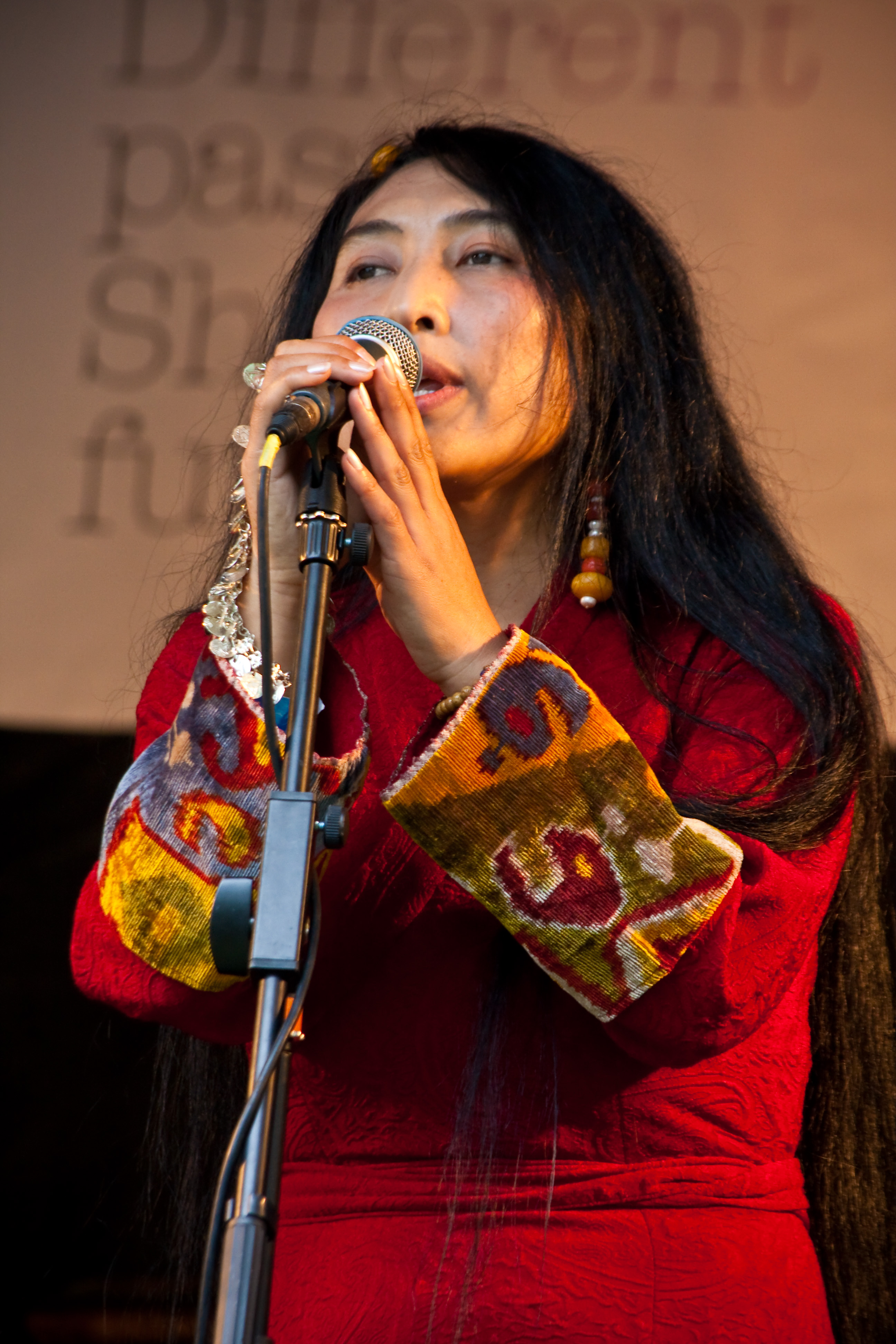 Soname from Tibet on the main stage.